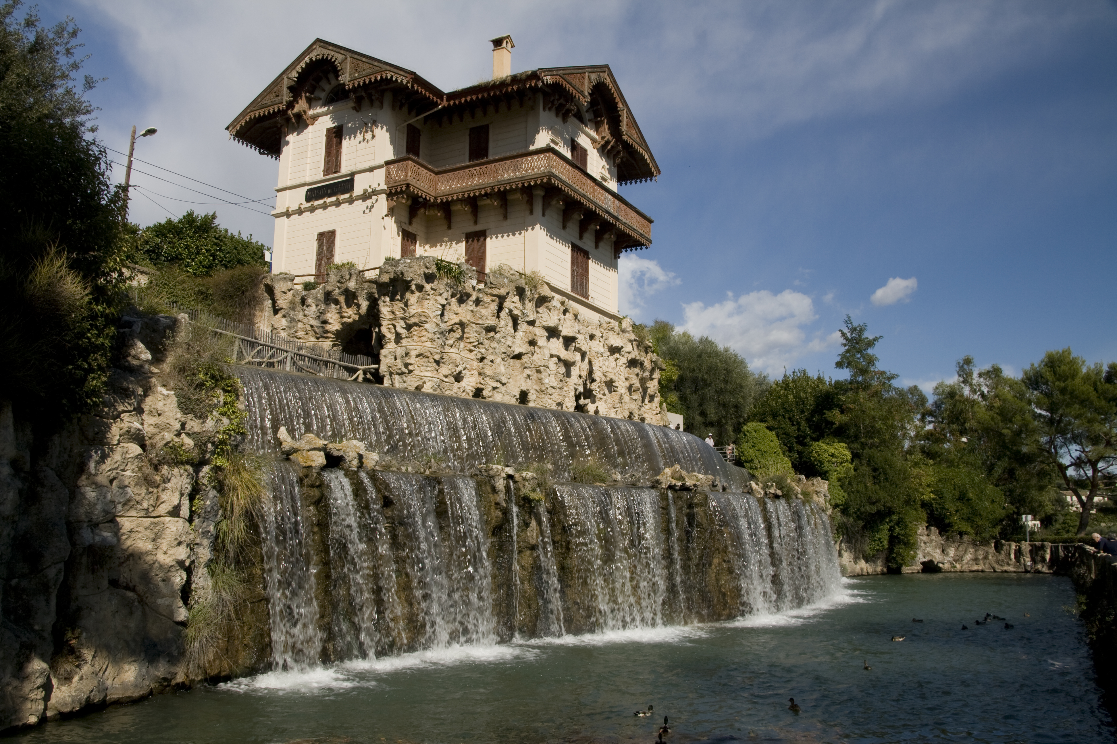 Cascade Gairaut, to the west. .